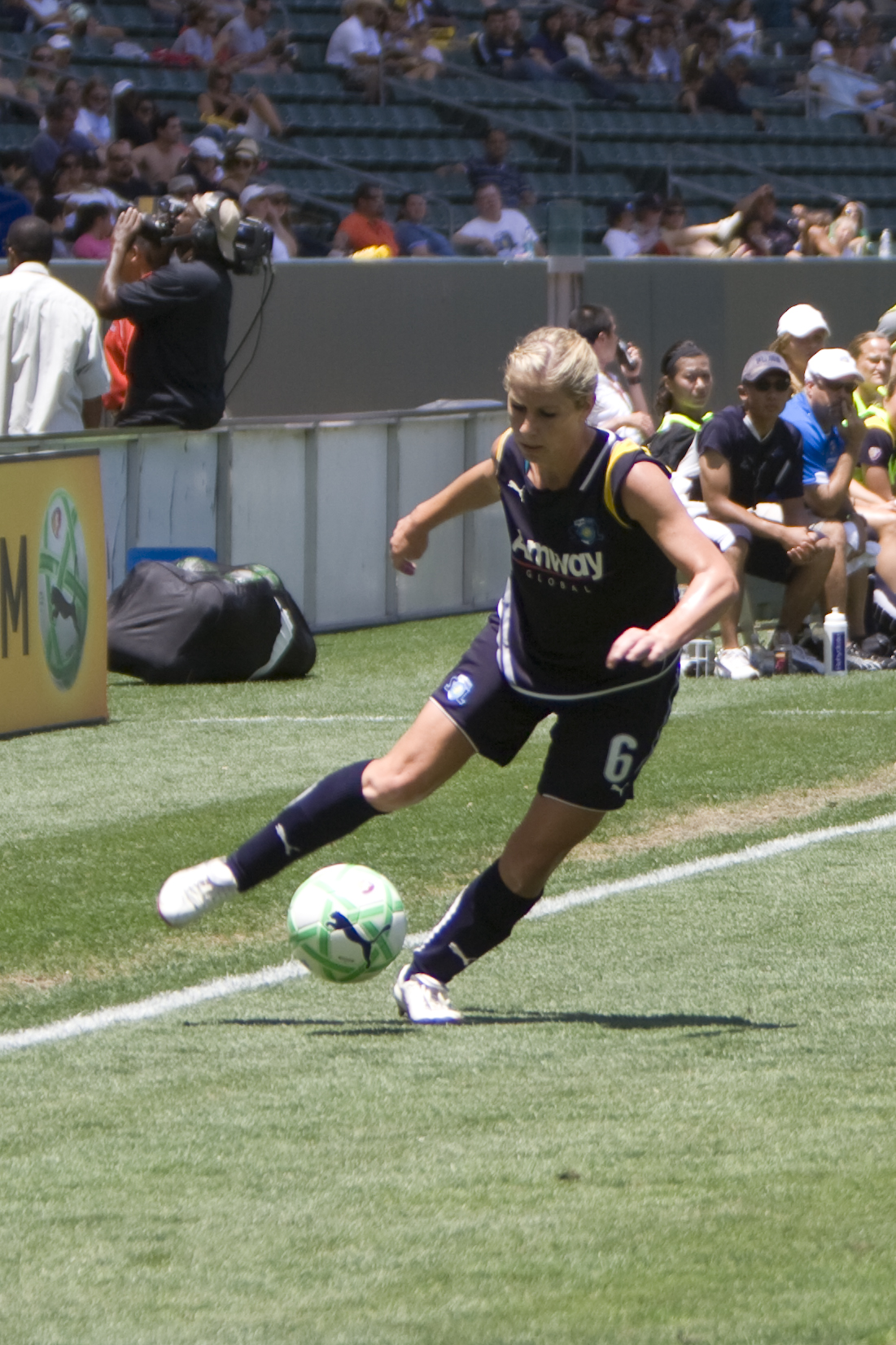 WPS 2009-July-08